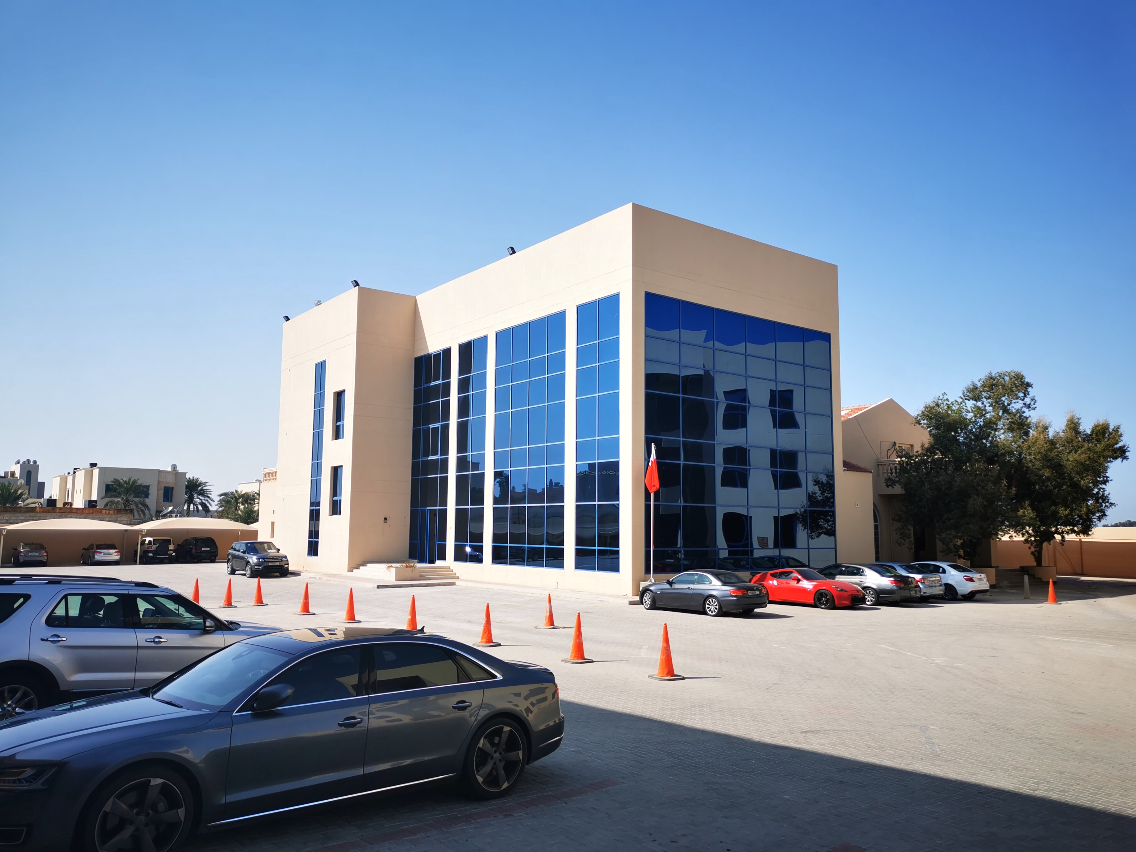 A building on the University College of Bahrain's campus.